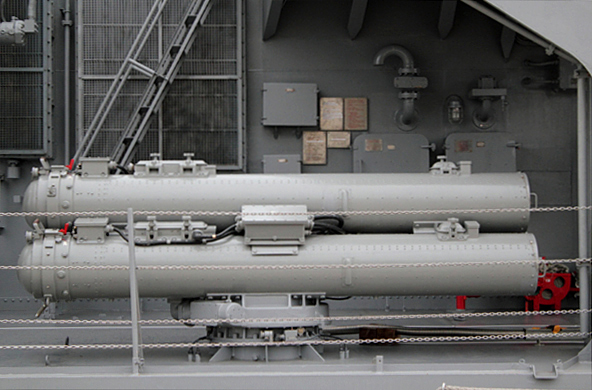 Mk 32 Torpedo Tubes (HOS-301C) on the starboard side of JS Shimakaze (DDG-172). Canon EOS Kiss X4